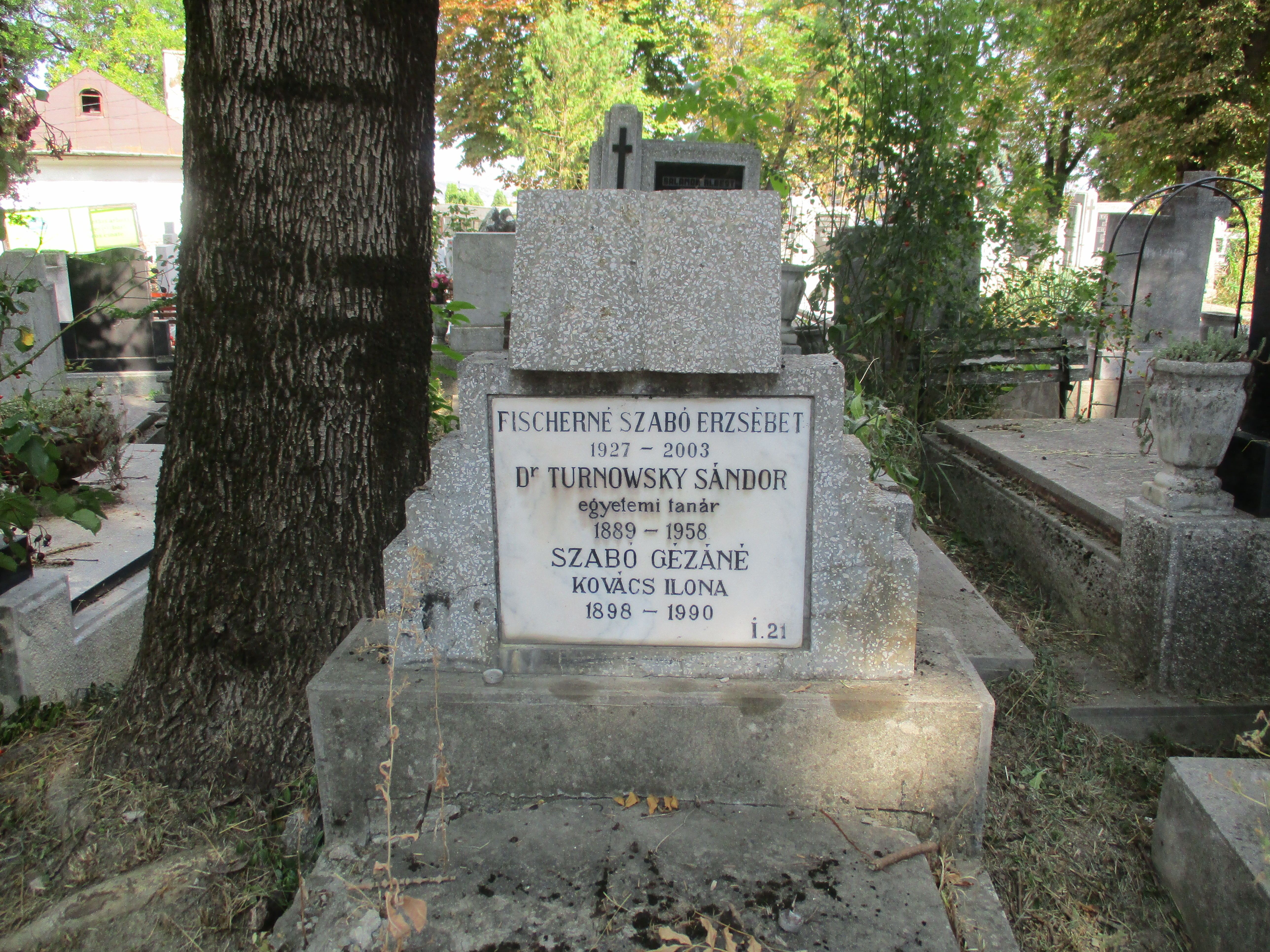 Grave of Sándor Turnowsky (1889–1958) Hungarian journalist, legal and sociographic journalist from Transylvania